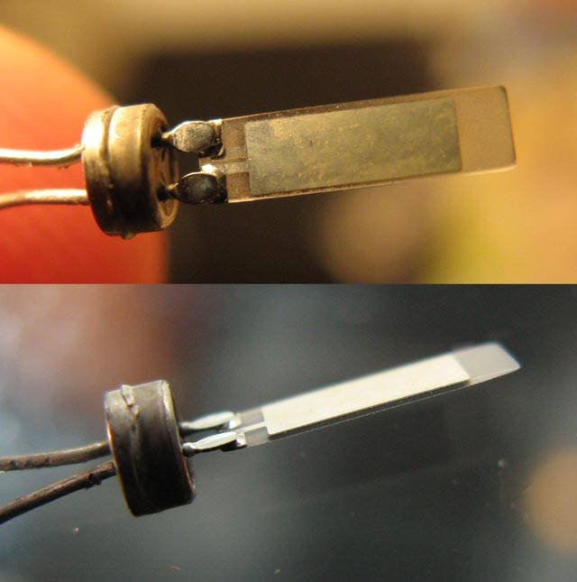 Picture of a QuartzCrystal(simple type) inside the cover.